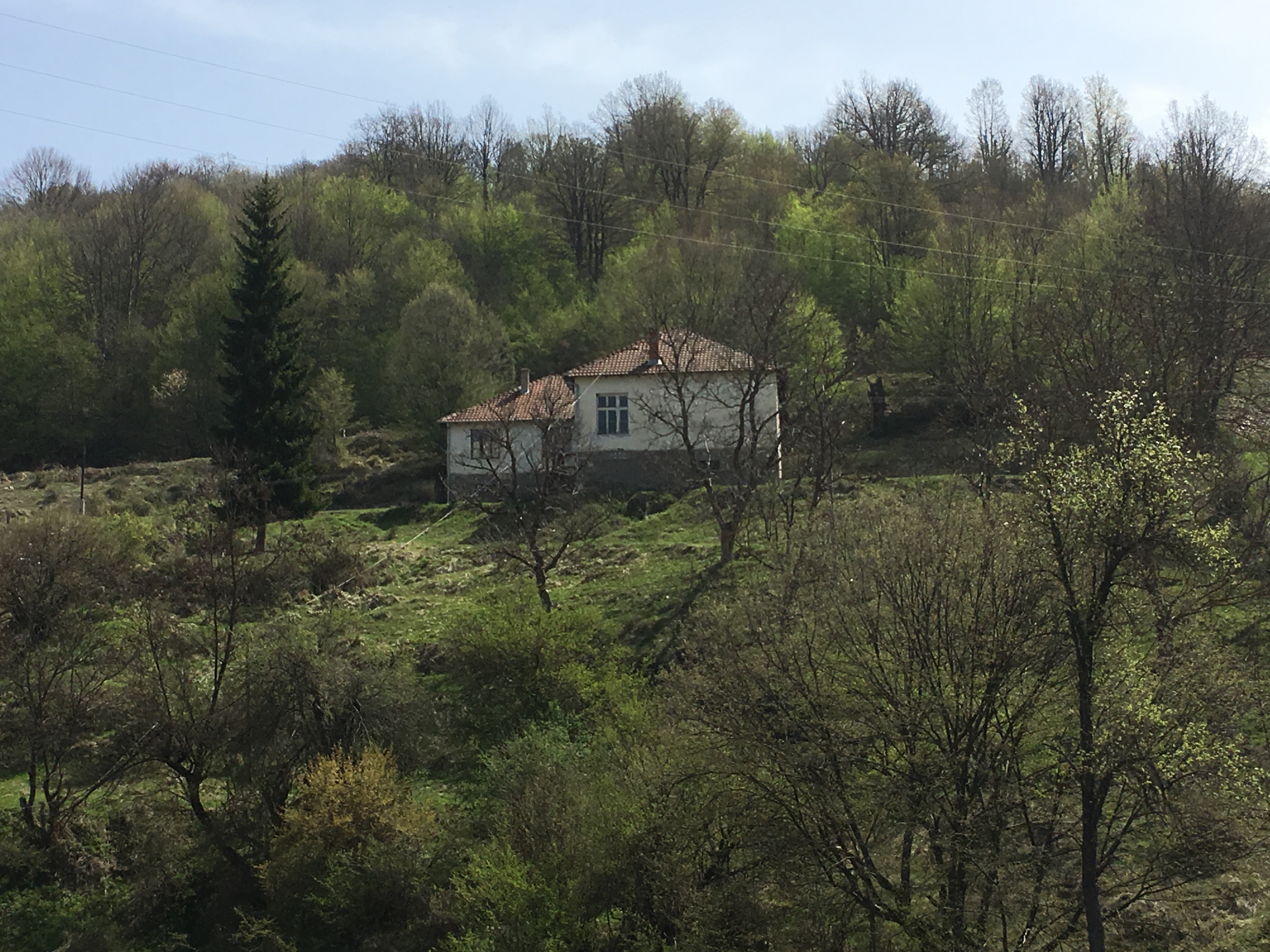 A primary school in the village of Uzem